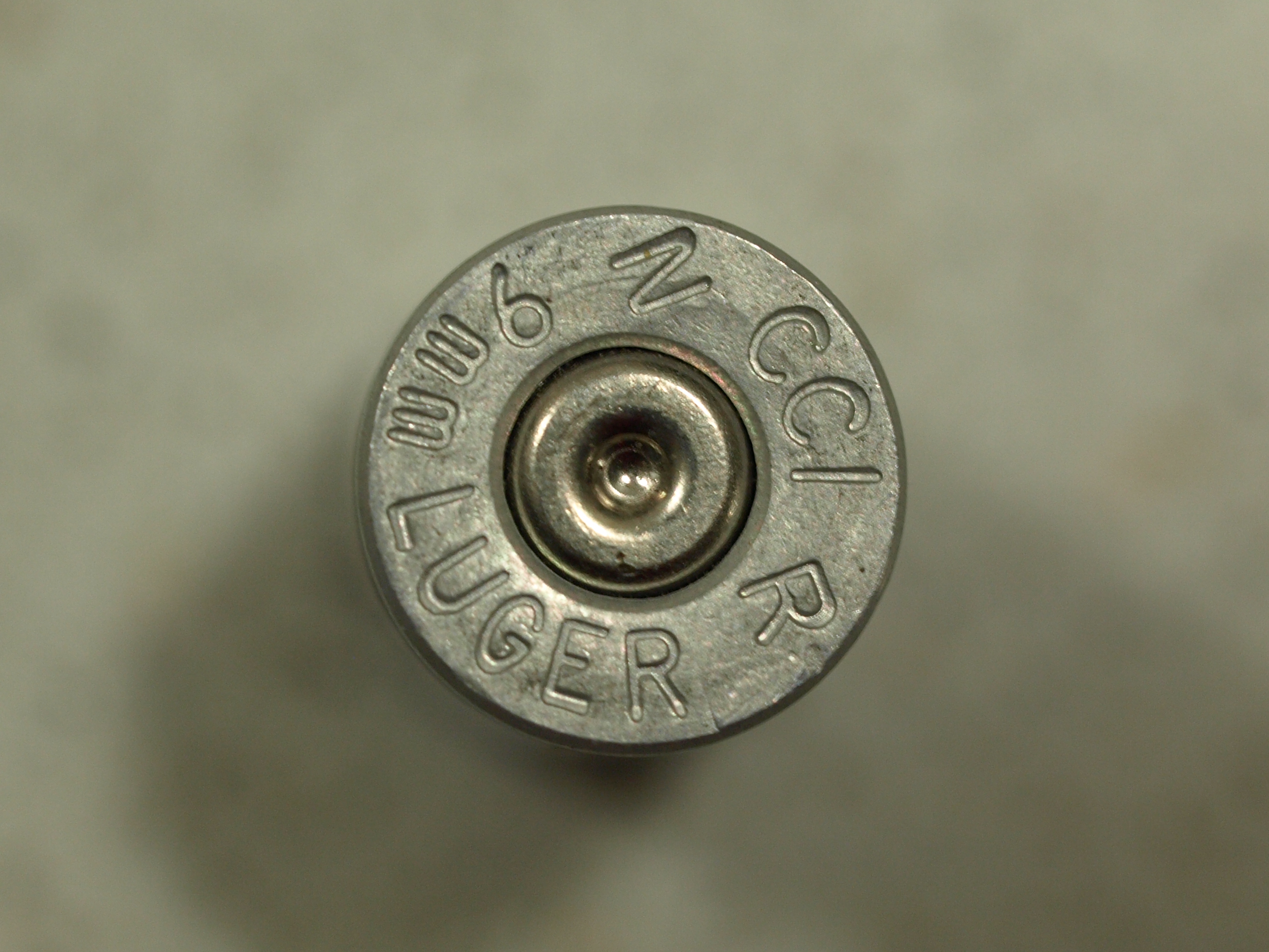 9 mm Luger, a pistol cartridge.